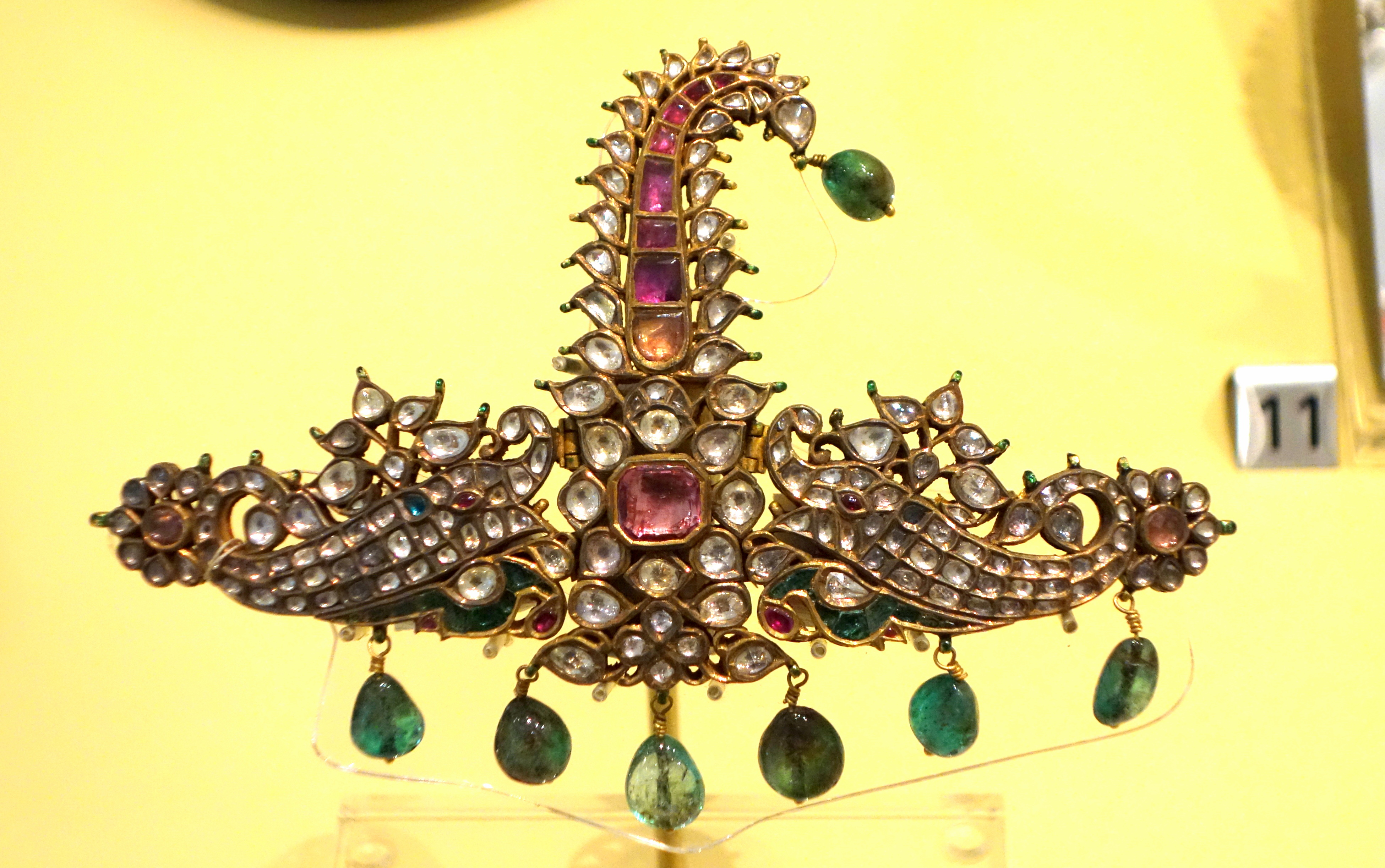 Exhibit in the Royal Ontario Museum, Toronto, Ontario, Canada. This work is old enough so that it is in the public domain.